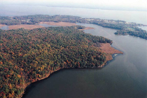 Aerial view of Crow's Nest facing northeast.